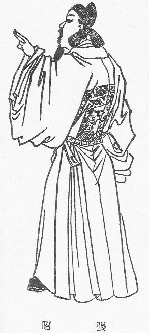 Portrait of the officer Zhang Zhao from a Qing Dynasty edition of The Romance of the Three Kingdoms.